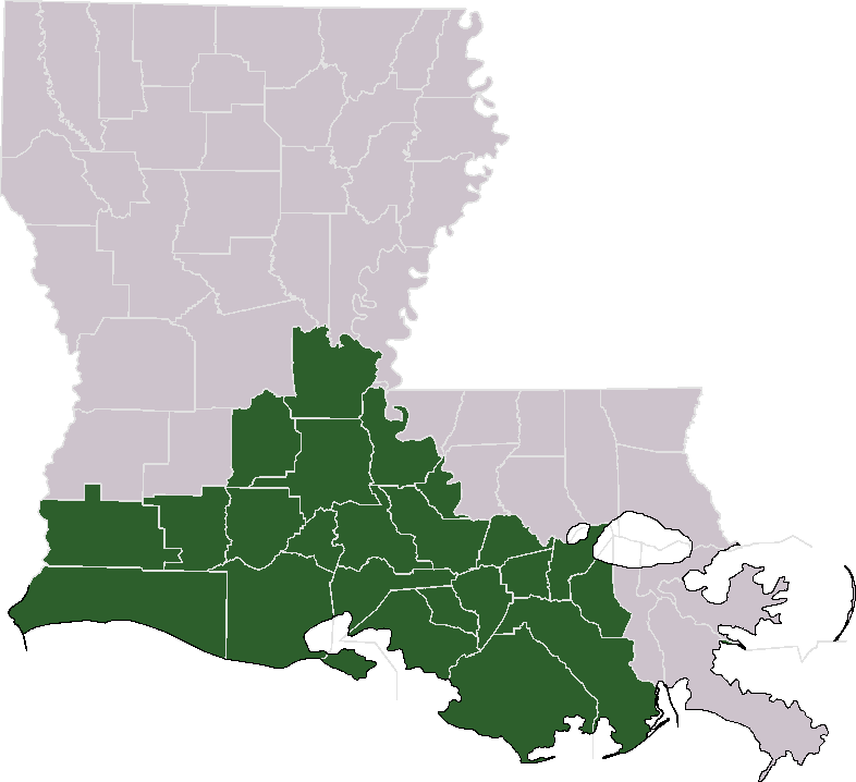 The traditional 22 parishes of "Cajun country" or "Acadiana" in southern Louisiana, USA. Based upon Image:Louisiana parishes map.png, which is in public domain. QuartierLatin1968 03:49, 17 December 2005 (UTC)